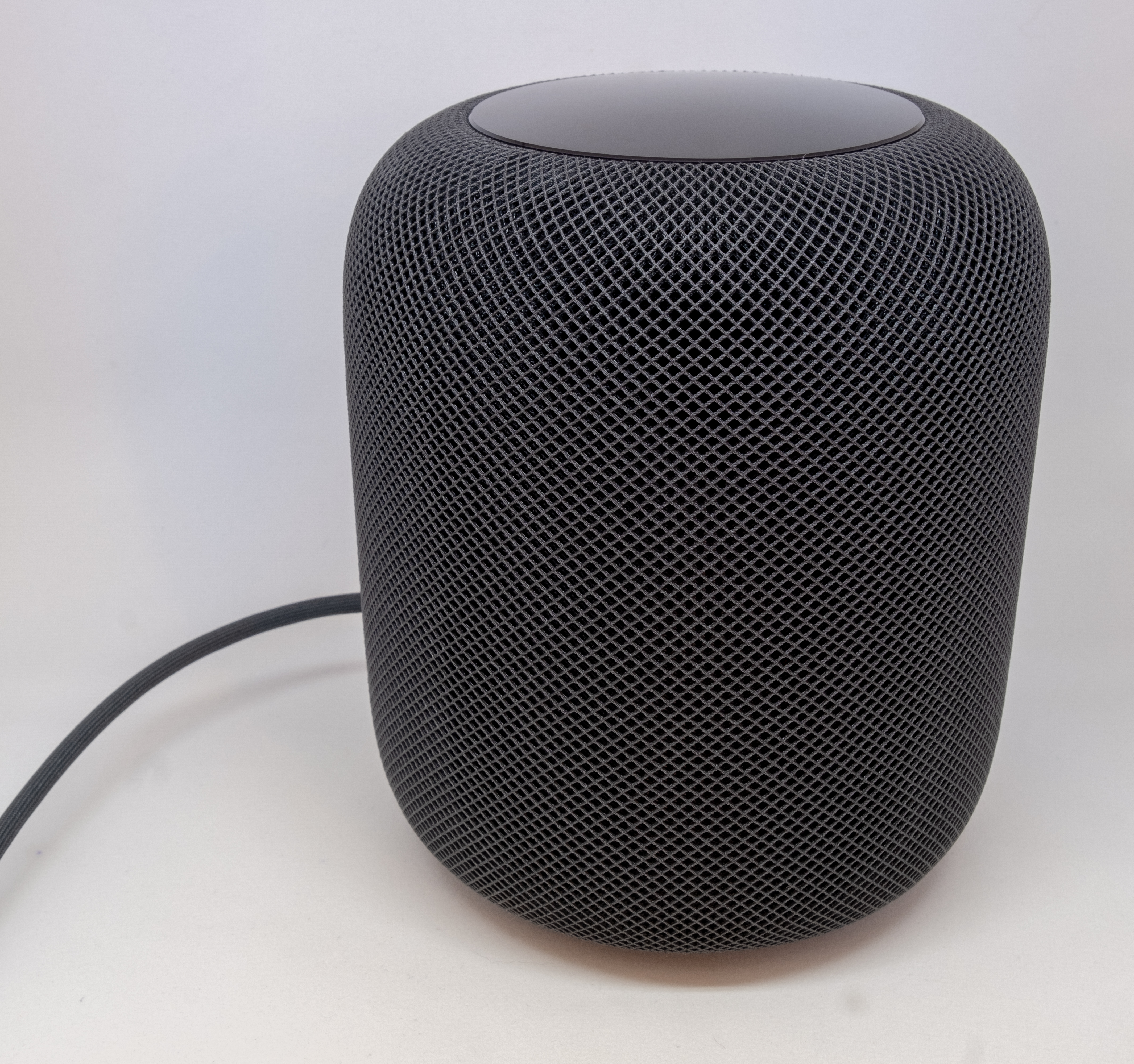 Apple HomePod - black model